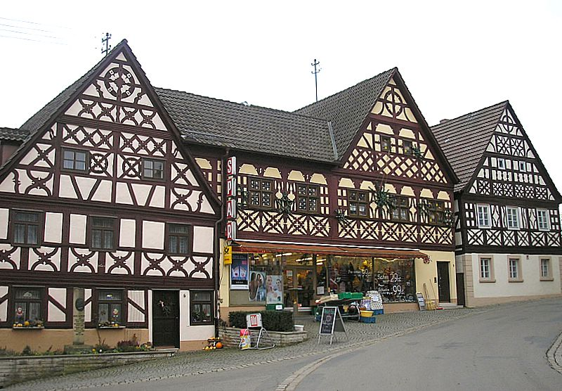 Mürsbach (Markt Rattelsdorf, Landkreis Bamberg, Upper Franconia, Germany). Timber frame buildings at the central place